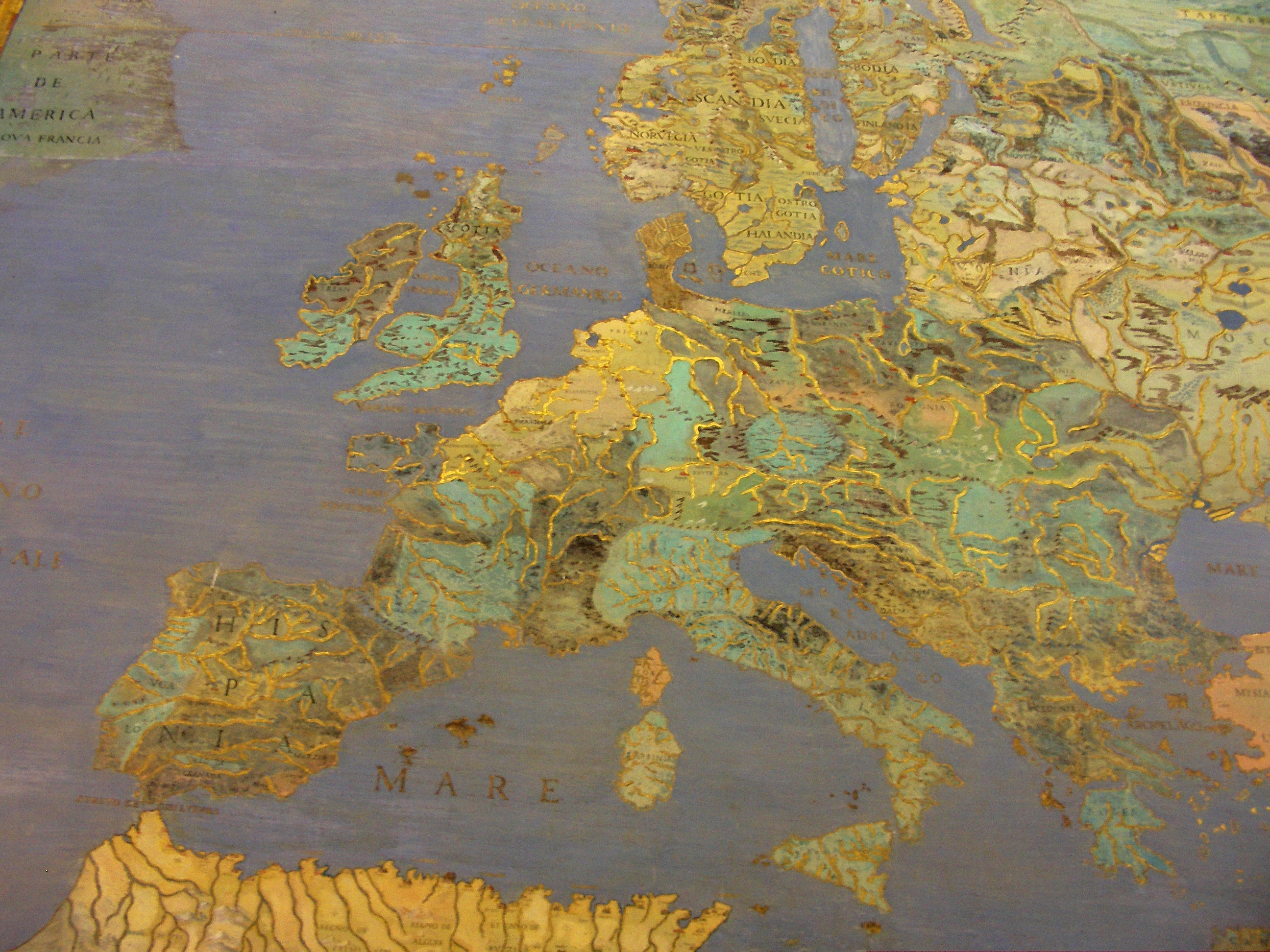 Fresco Detail from the "Geographical Room" of the Villa Farnese in Caprarola, Italy